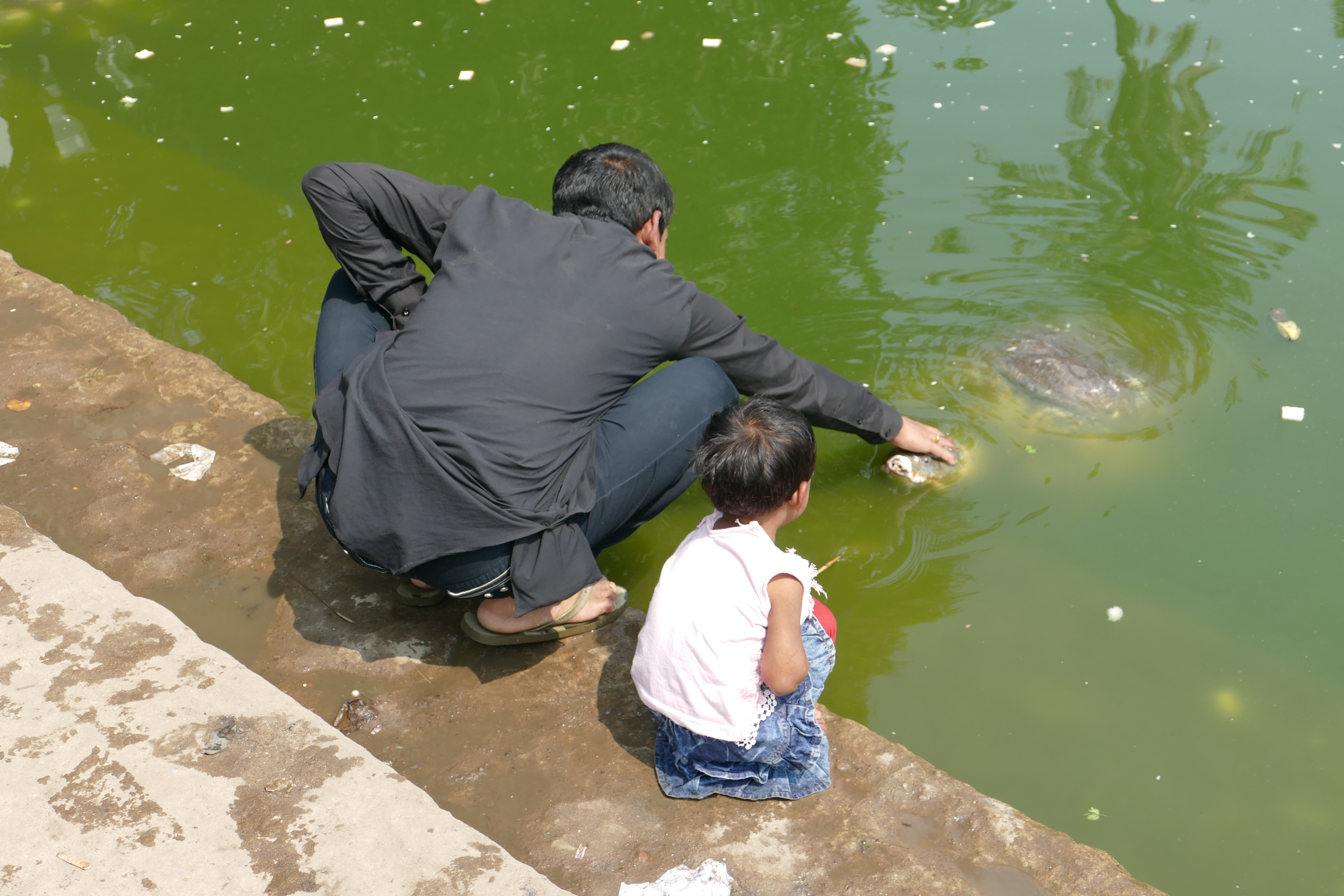 Feeding turtles in front of the shrine of Bayazid Bostami in Chittagong - a turtle accepting food is supposed to be a sign of good luck This photo has been taken in the country: Bangladesh